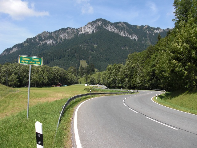 Ettaler Sattel: Summit with sign